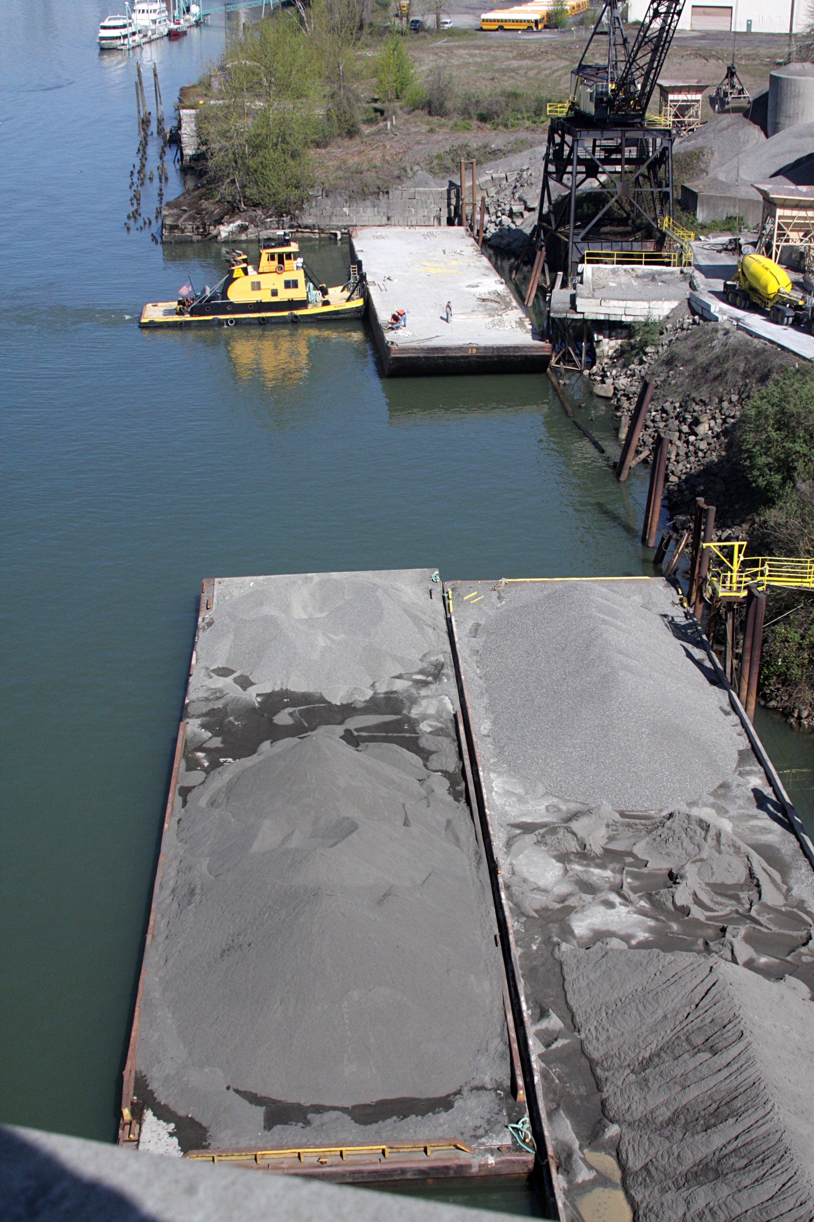 Cement transport on Willamette river, from Ross Island cement plant.